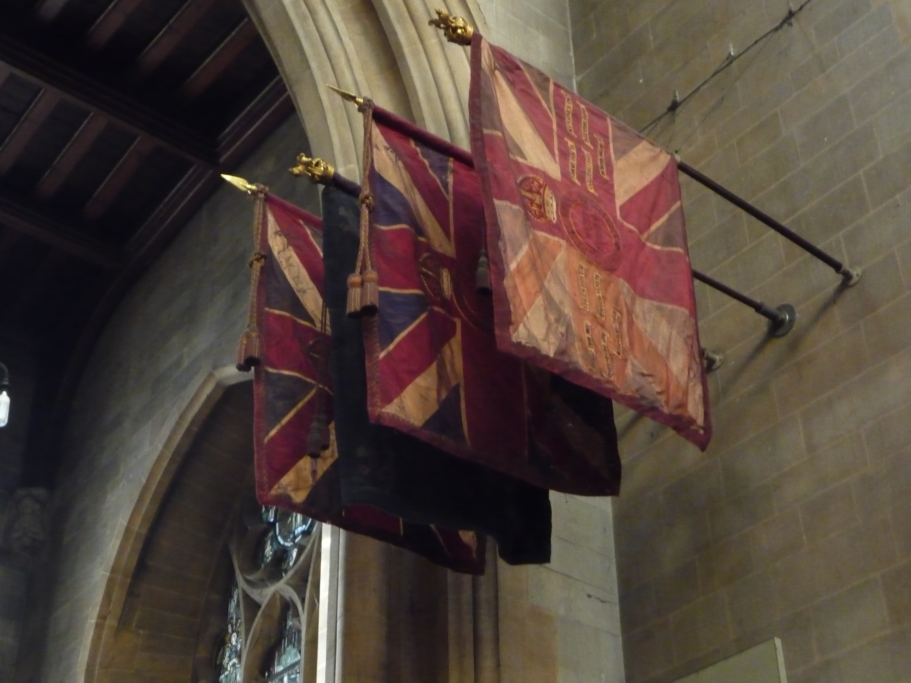 The King's and Regimental Colours of the 4th Battalion, Queen's Royal Regiment (West Surrey), in Croydon Minster